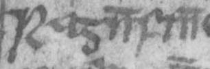 An excerpt from folio 1v of National Library of Scotland Advocates' MS 72.1.1 showing the name of Raghnall Fionn mac Lachlainn Mhic Ruaidhrí within a pedigree of Clann Ruaidhrí. The photograph is black and white and taken under under ultra-violet light.